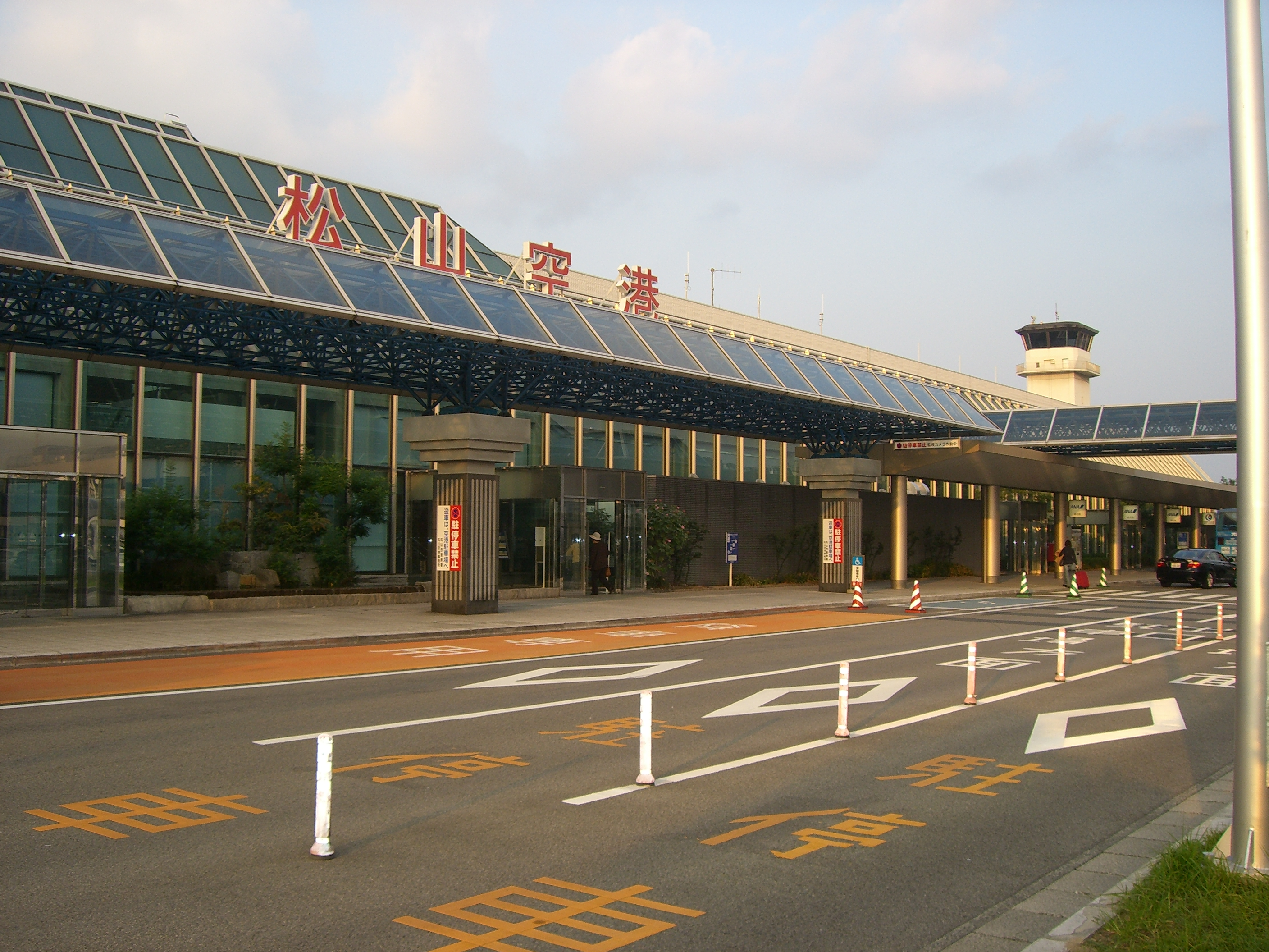 Matsuyama Airport Passenger Terminal(MYJ)